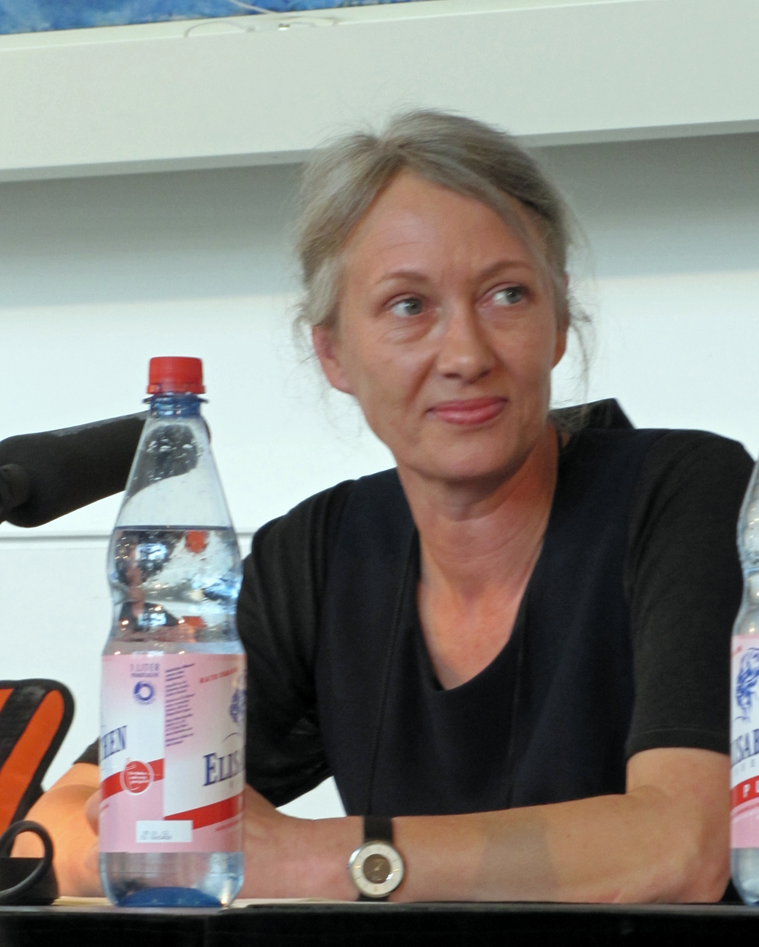 Heidi Ecks, German actress, 2011 in Frankfurt am Main, Germany.